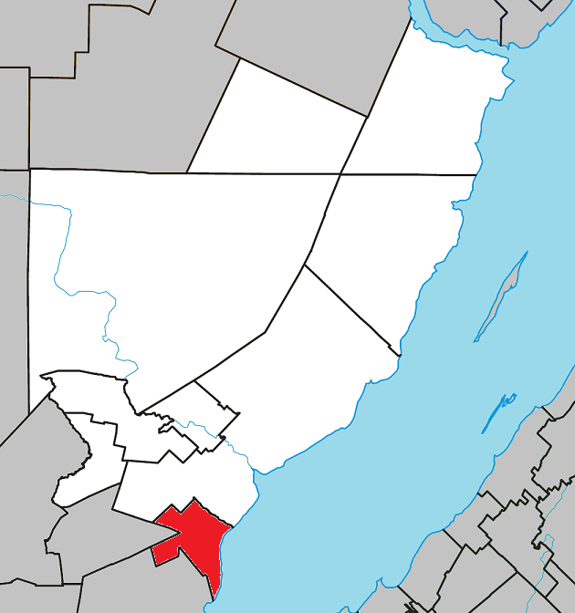 Location of Saint-Irénée, Quebec within Charlevoix-Est Regional County Municipality.